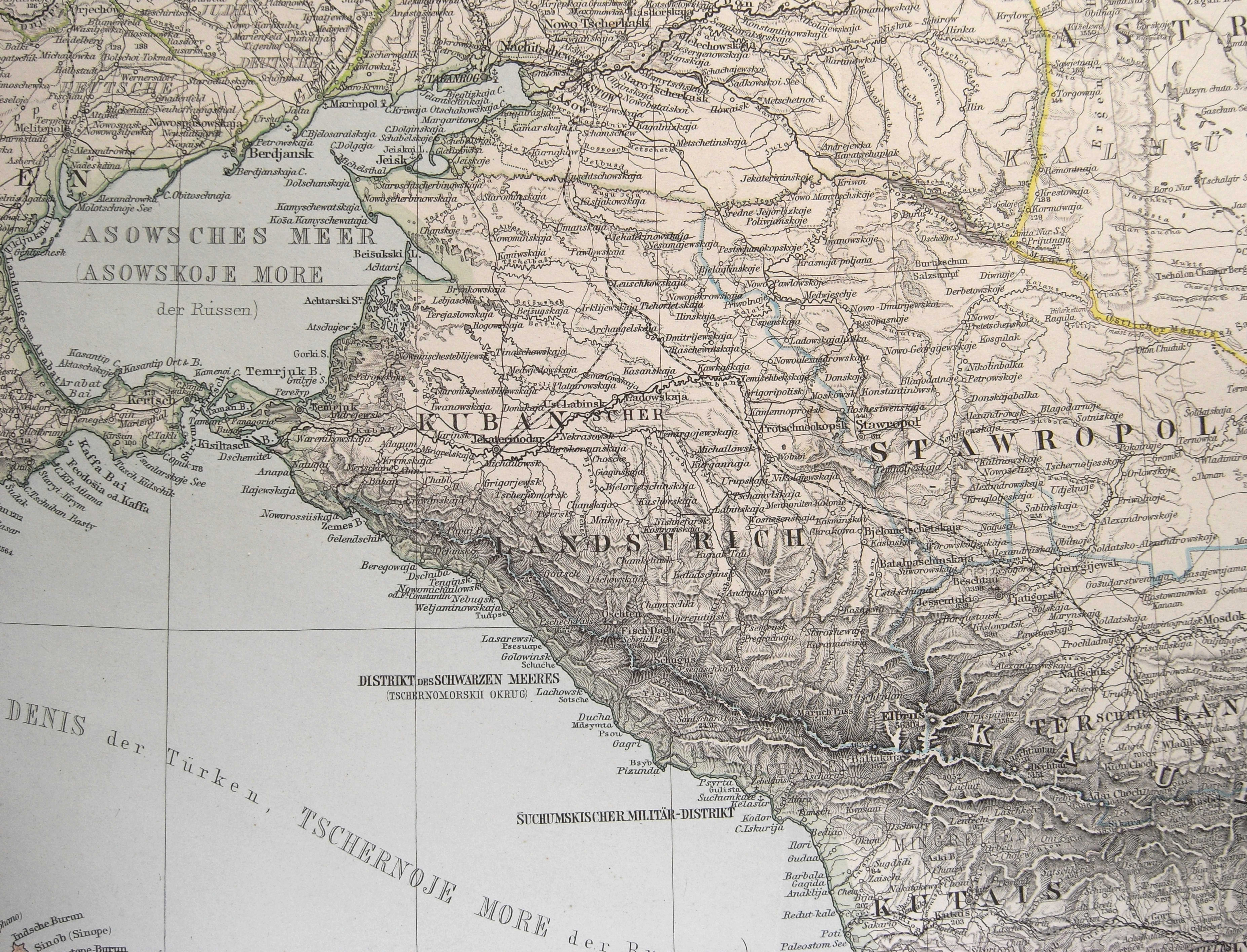 map of Kuban district in Russia (Stielers Handatlas, sheet 49, 1892)